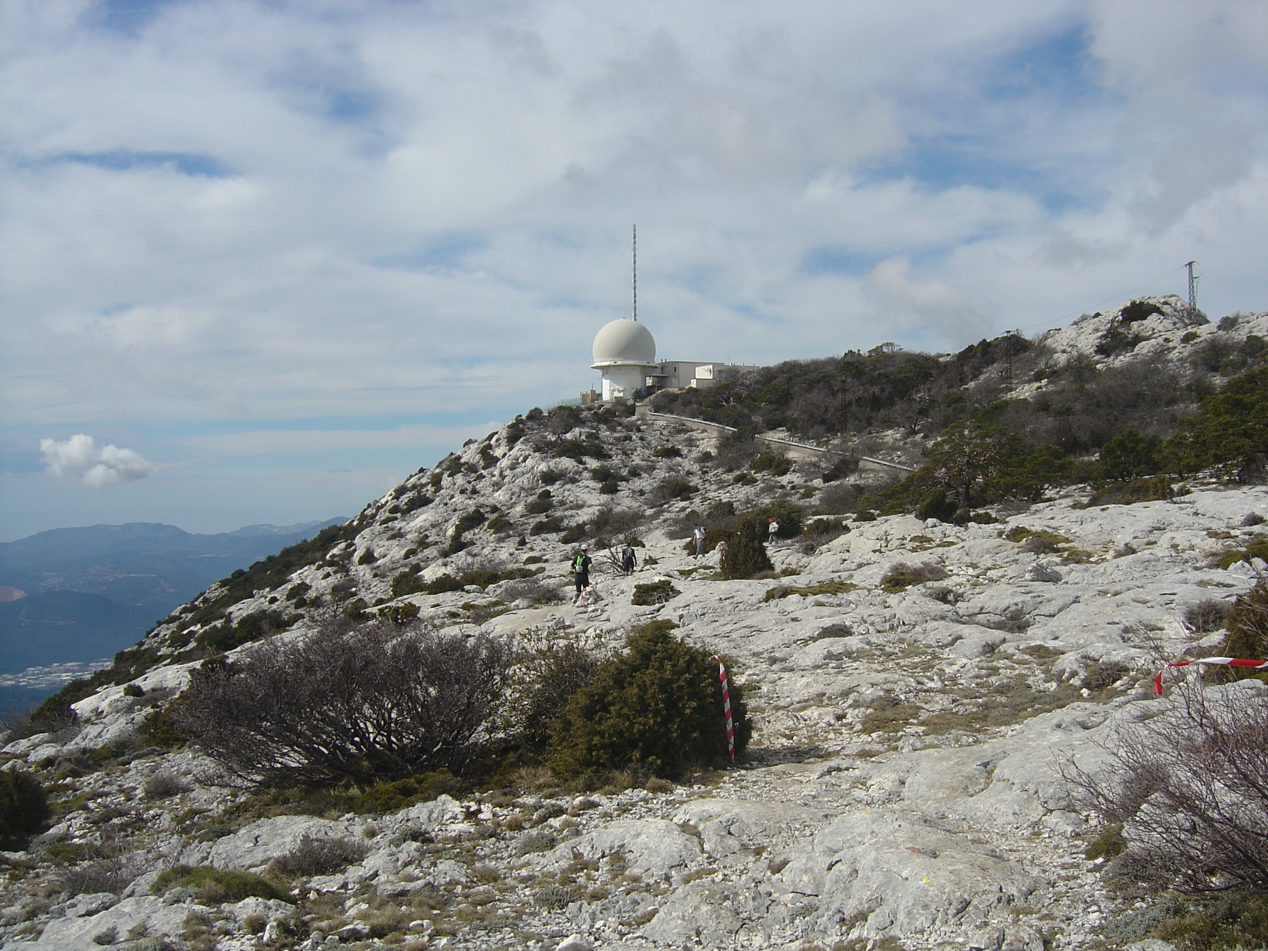 Pic de Bertagne (1041m)